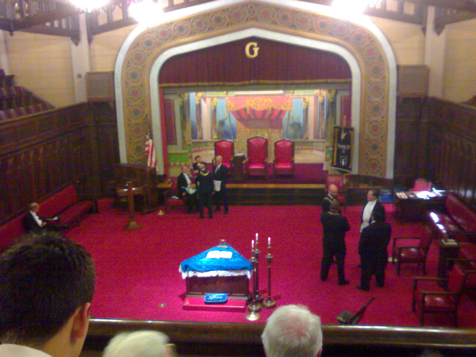 Lodge Room of the Salt Lake Masonic Temple, Utah.